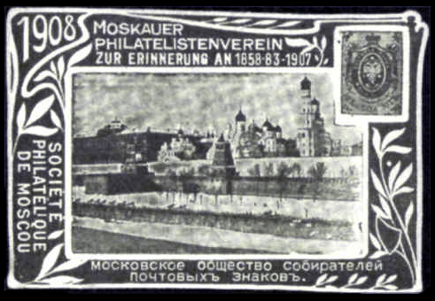 Vignette of the Moscow society of collectors of post signs